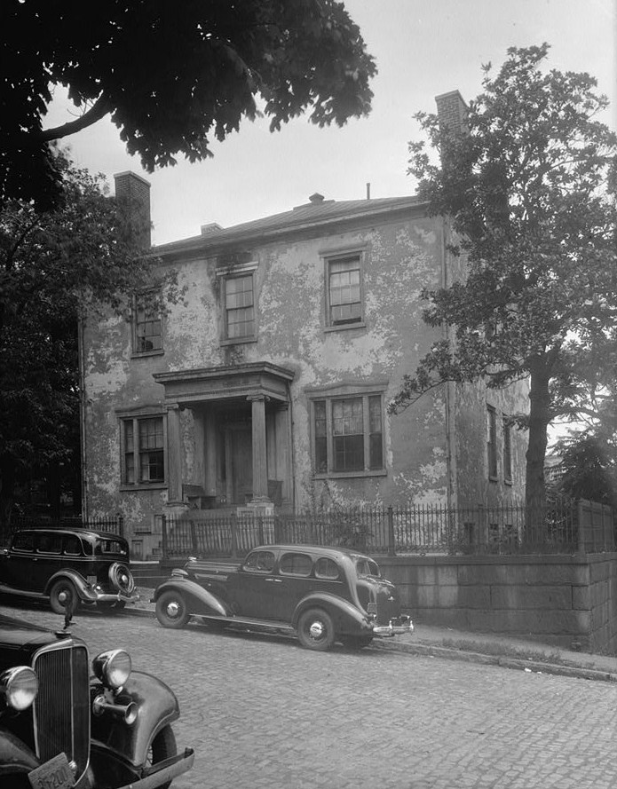 William Barret House, Fifth & Cary Streets (Richmond, Independent City, Virginia) cropped, HABS VA,44-RICH,43-1 This file comes from the Historic American Buildings Survey (HABS), Historic American Engineering Record (HAER) or Historic American Landscapes Survey (HALS). These are programs of the National Park Service established for the purpose of documenting historic places. Records consist of measured drawings, archival photographs, and written reports. When reusing please credit: Library of Congress, Prints & Photographs Division, VA-425 This tag does not indicate the copyright status of the attached work. A normal copyright tag is still required. See Commons:Licensing. This work is in the public domain in the United States because it is a work prepared by an officer or employee of the United States Government as part of that person’s official duties under the terms of Title 17, Chapter 1, Section 105 of the US Code. Note: This only applies to original works of the Federal Government and not to the work of any individual U.S. state, territory, commonwealth, county, municipality, or any other subdivision. This template also does not apply to postage stamp designs published by the United States Postal Service since 1978. (See § 313.6(C)(1) of Compendium of U.S. Copyright Office Practices). It also does not apply to certain US coins; see The US Mint Terms of Use. This file has been identified as being free of known restrictions under copyright law, including all related and neighboring rights.